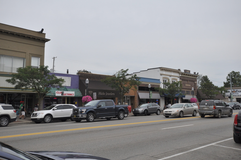 Clare Downtown Historic District, Clare, Michigan.